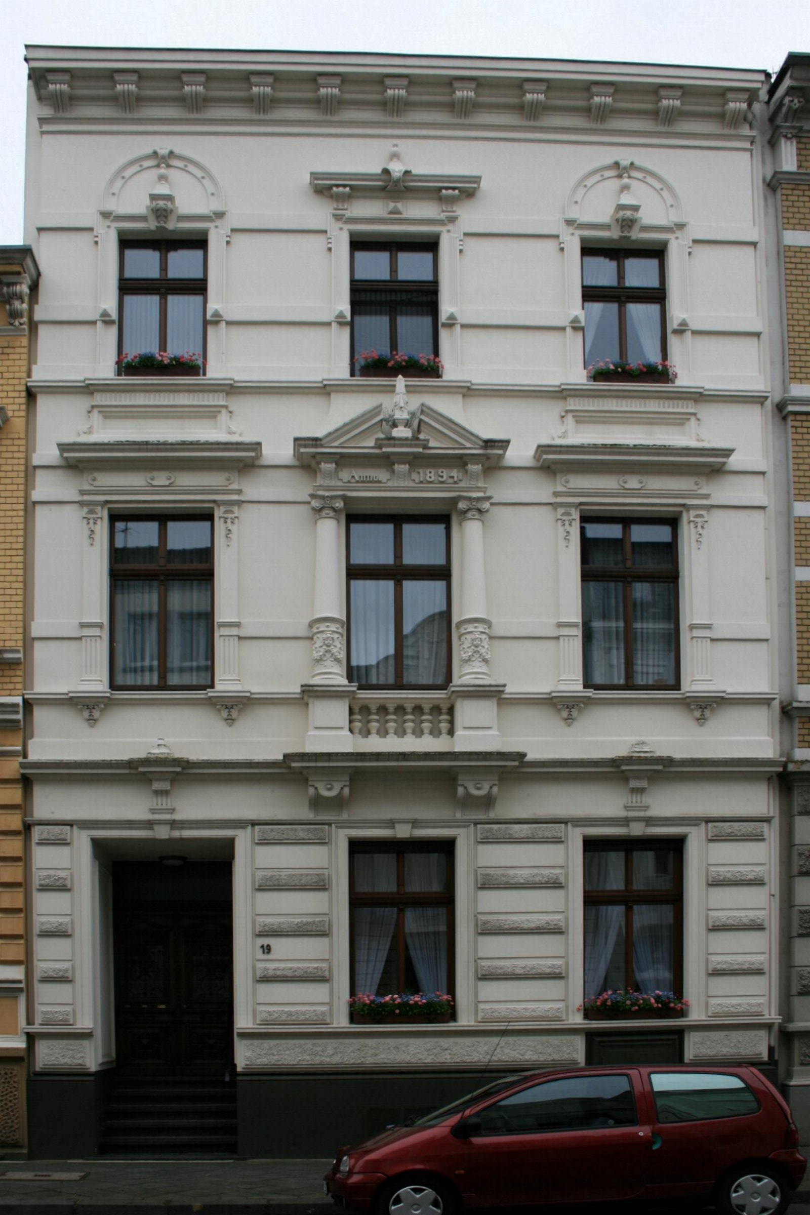 Cultural heritage monument No. St 034 in Mönchengladbach